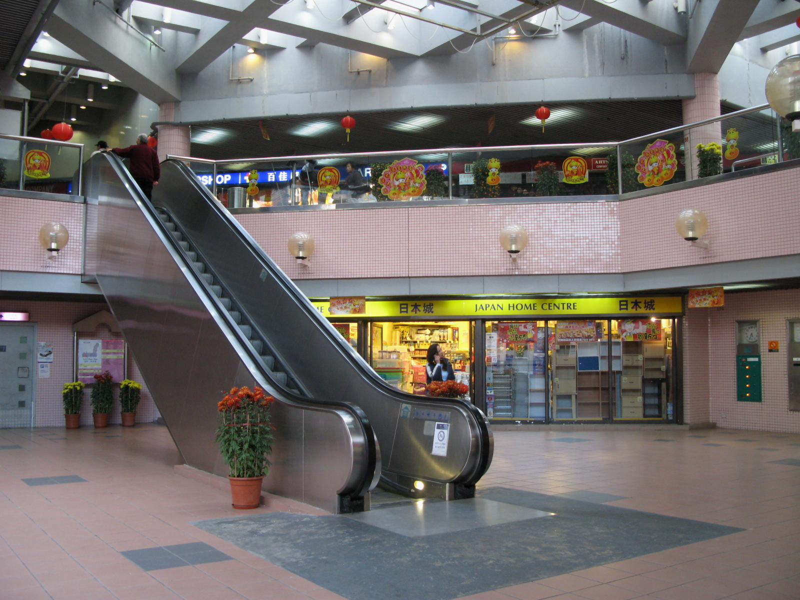 HK Lee On Shopping Centre